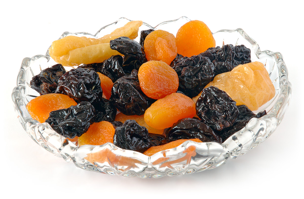 This image shows various dry fruits.